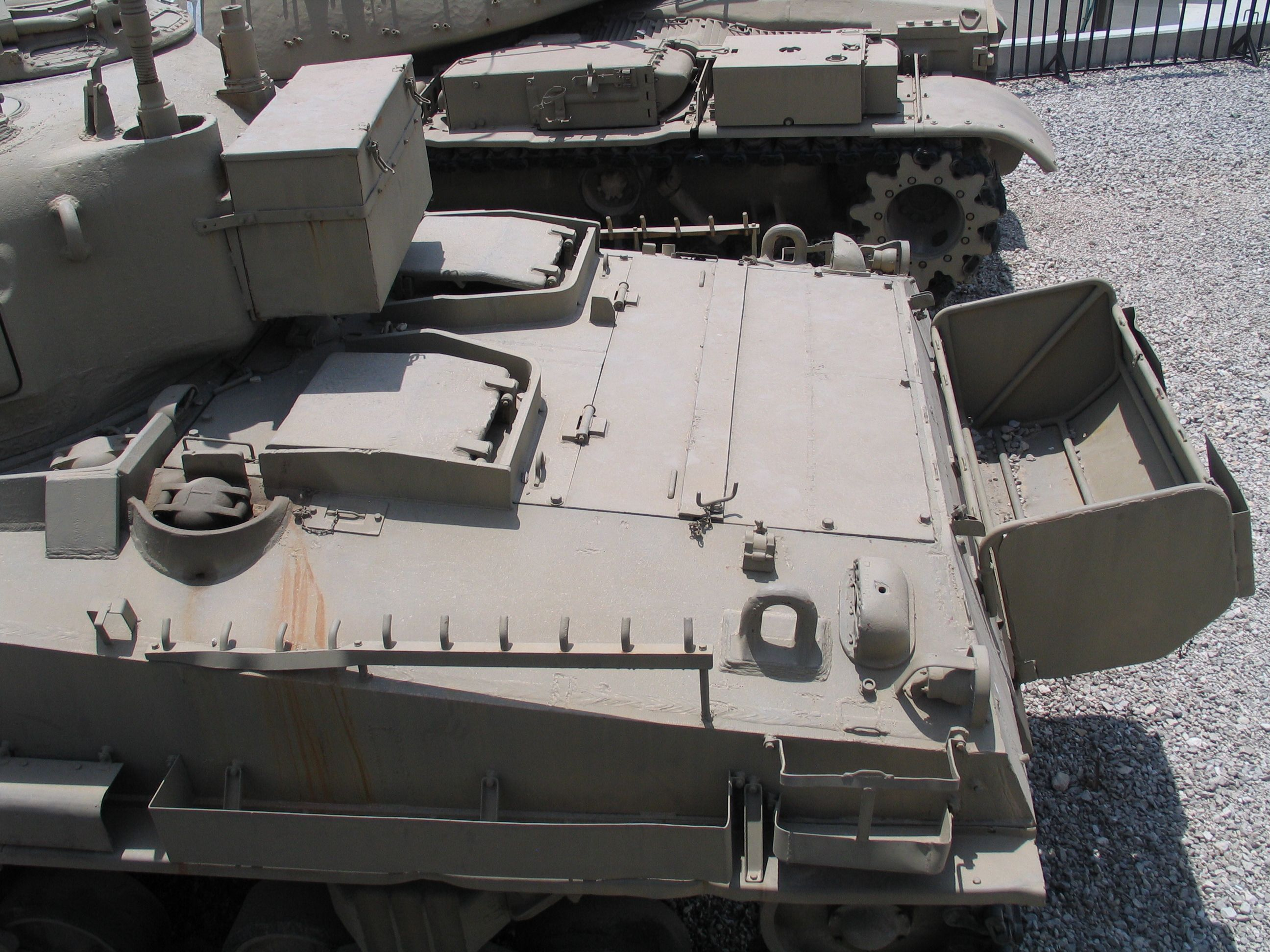 M4 Sherman with mine flail (IDF designation Sherman Morag) in Yad la-Shiryon Museum, Israel.